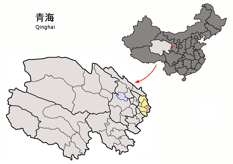 Location of Minhe County (pink) and Haidong Prefecture (yellow) within Qinghai province of China Map drawn in september 2007 using various sources, mainly : Qinghai province administrative regions GIS data: 1:1M, County level, 1990 Qinghai Counties map from "Plateau Perspectives" (the limits of some county-level subdivisions may not be accurate)